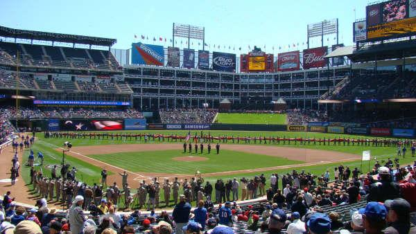 Opening day at the Rangers Ballpark in Arlington 4/6/09